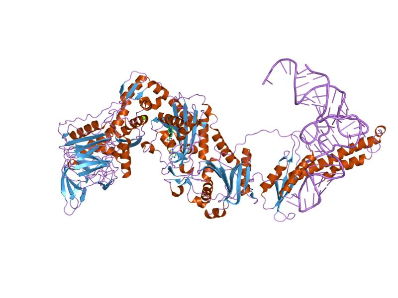 Cartoon representation of the molecular structure of protein registered with 2iy5 code.